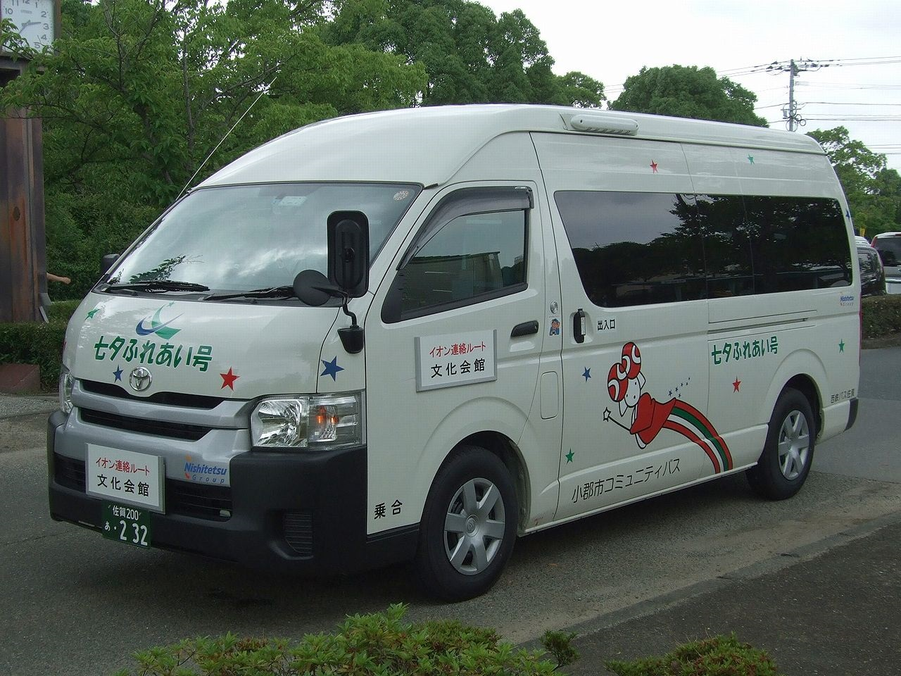 Ogori City Community Bus 小郡市コミュニティバス